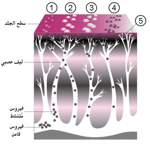 Progression of shingles. A cluster of small bumps (1) turns into blisters (2) that resemble chickenpox lesions. The blisters fill with pus, break open (3), crust over (4), and finally disappear. This process takes four to five weeks. A painful condition called post-herpetic neuralgia can sometimes occur. This condition is thought to be caused by damage to the nerves (5), and can last from weeks to years after the rash disappears.